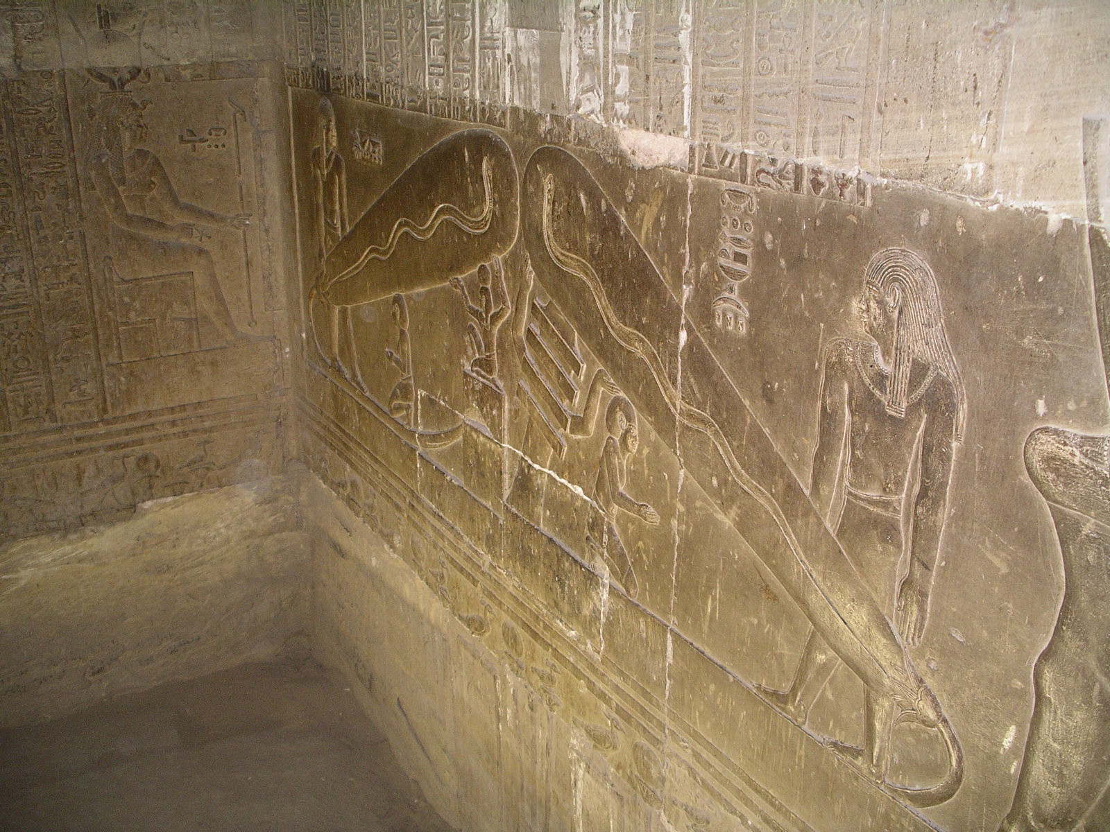 The so-called Dendera light in one of the crypts of Hathor temple at the Dendera Temple complex in Egypt, showing the double representation on the right wall of the right wing of the crypt. Photographed February 6, 2005, by Lasse Jensen